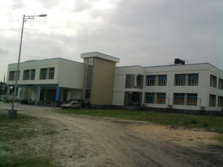 com&jnmh